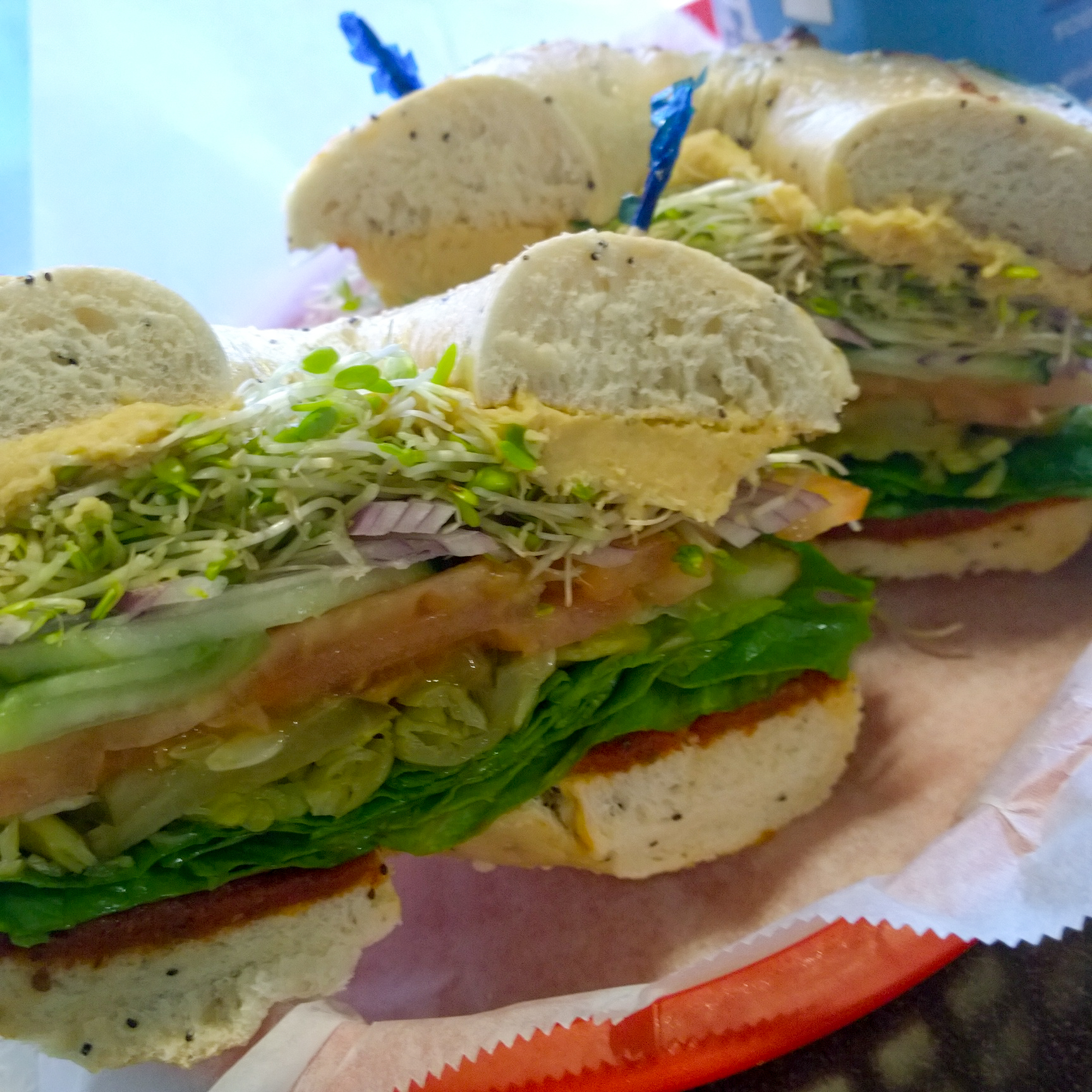 cut Bagel with lettuce, sprouts and avocado